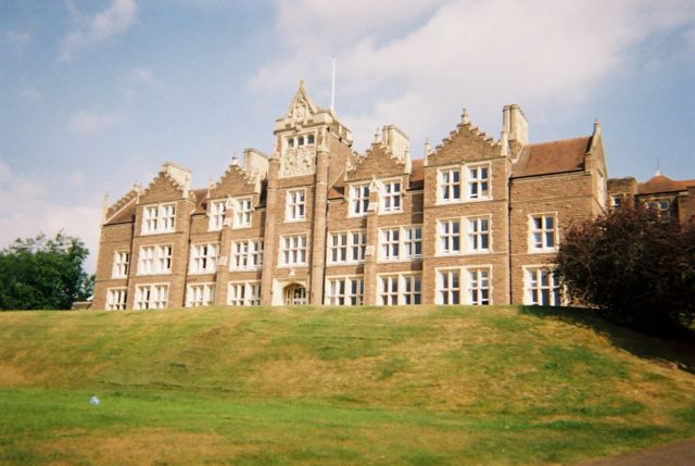 Haberdashers' Monmouth School for Girls. A Girls Boarding School with an unusual War Memorial.